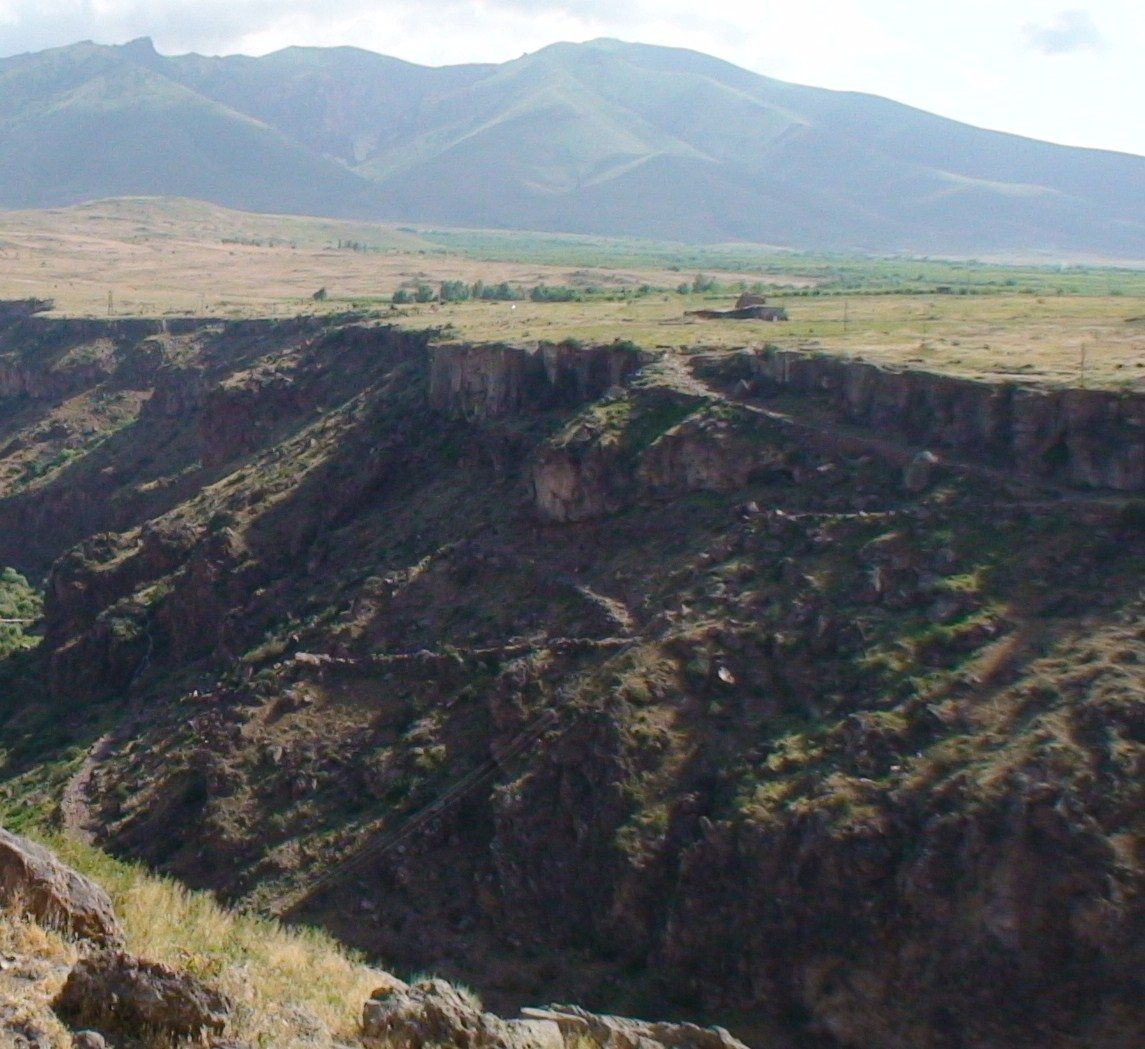 Relief of Armenia